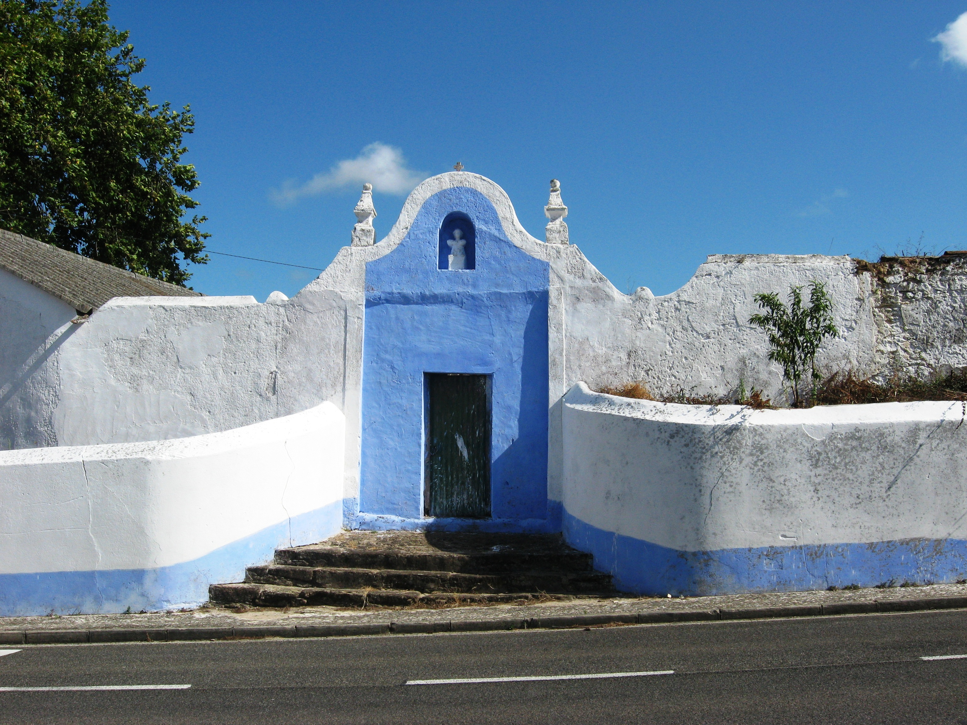 Alcobaça, Portugal, Mosteiro, Coutos de Alcobaça, old county of the Abbey, one if the 13 cities: Salir de Matos, ruins of the Quinta de Formigal, entrance door